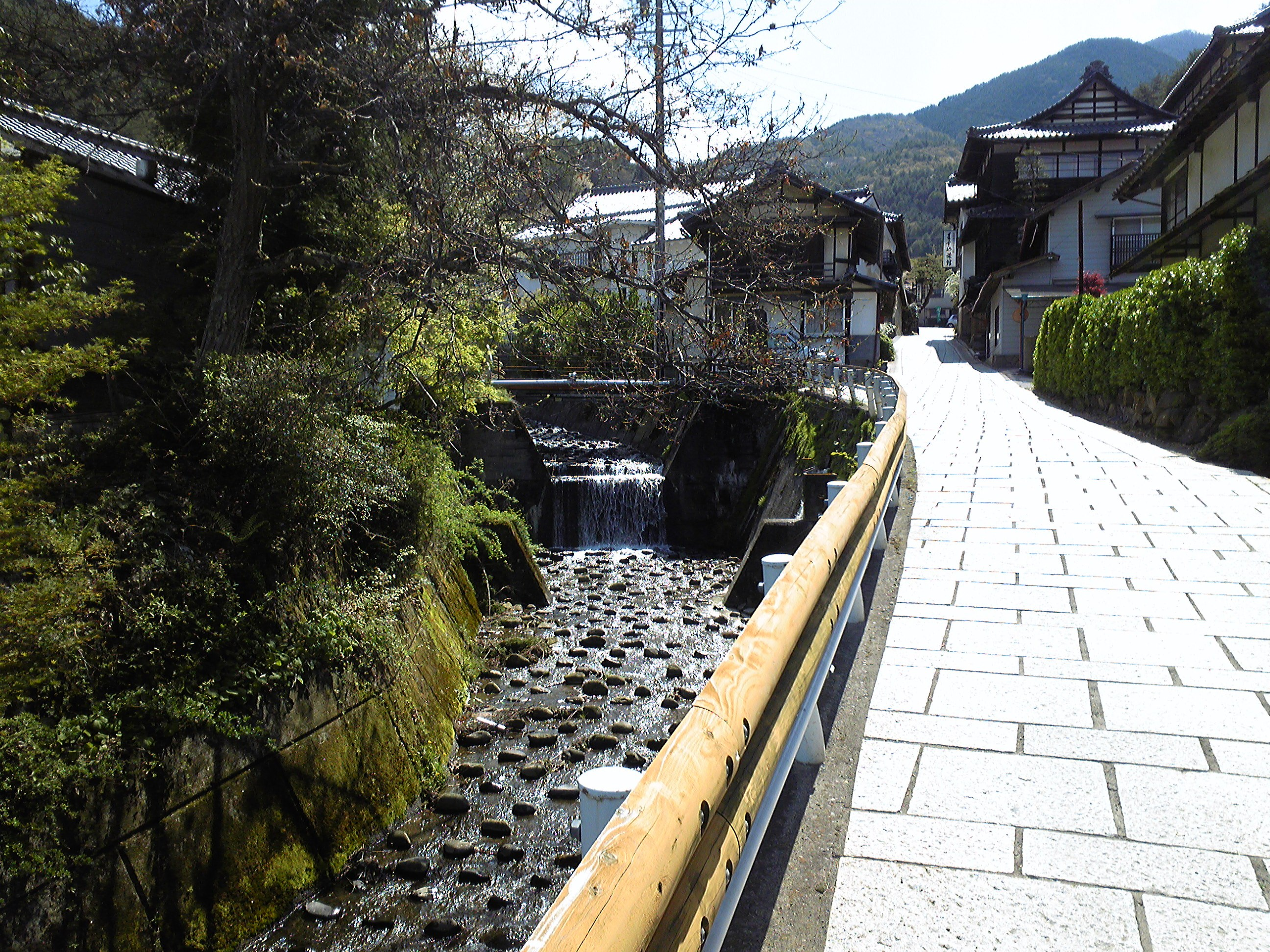 Yugawa River in Aoki, Nagano Japan.